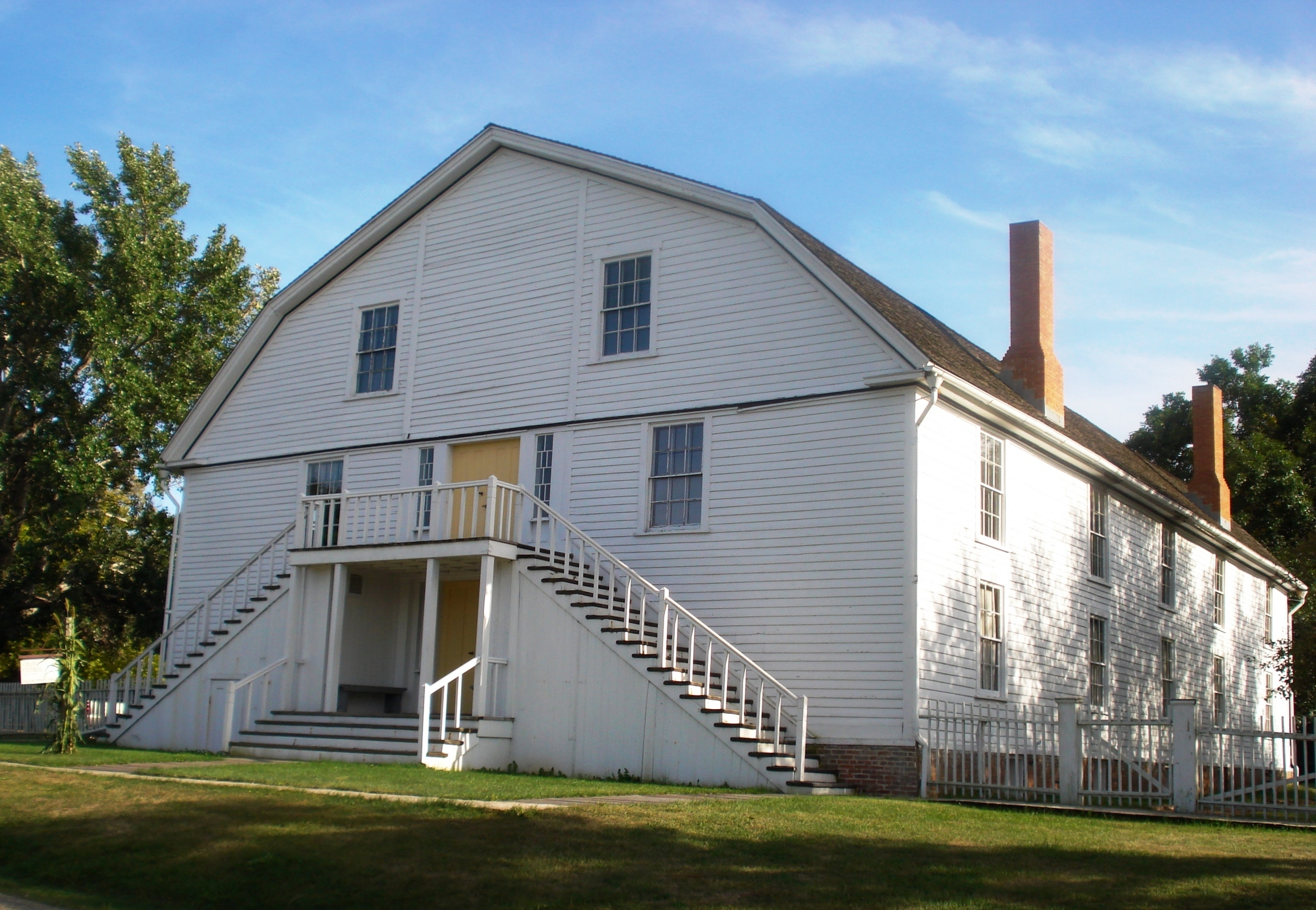 Built in 1848. The sanctuary is on the second floor. Designed to reflect doctrinal ideas of Eric Janson.